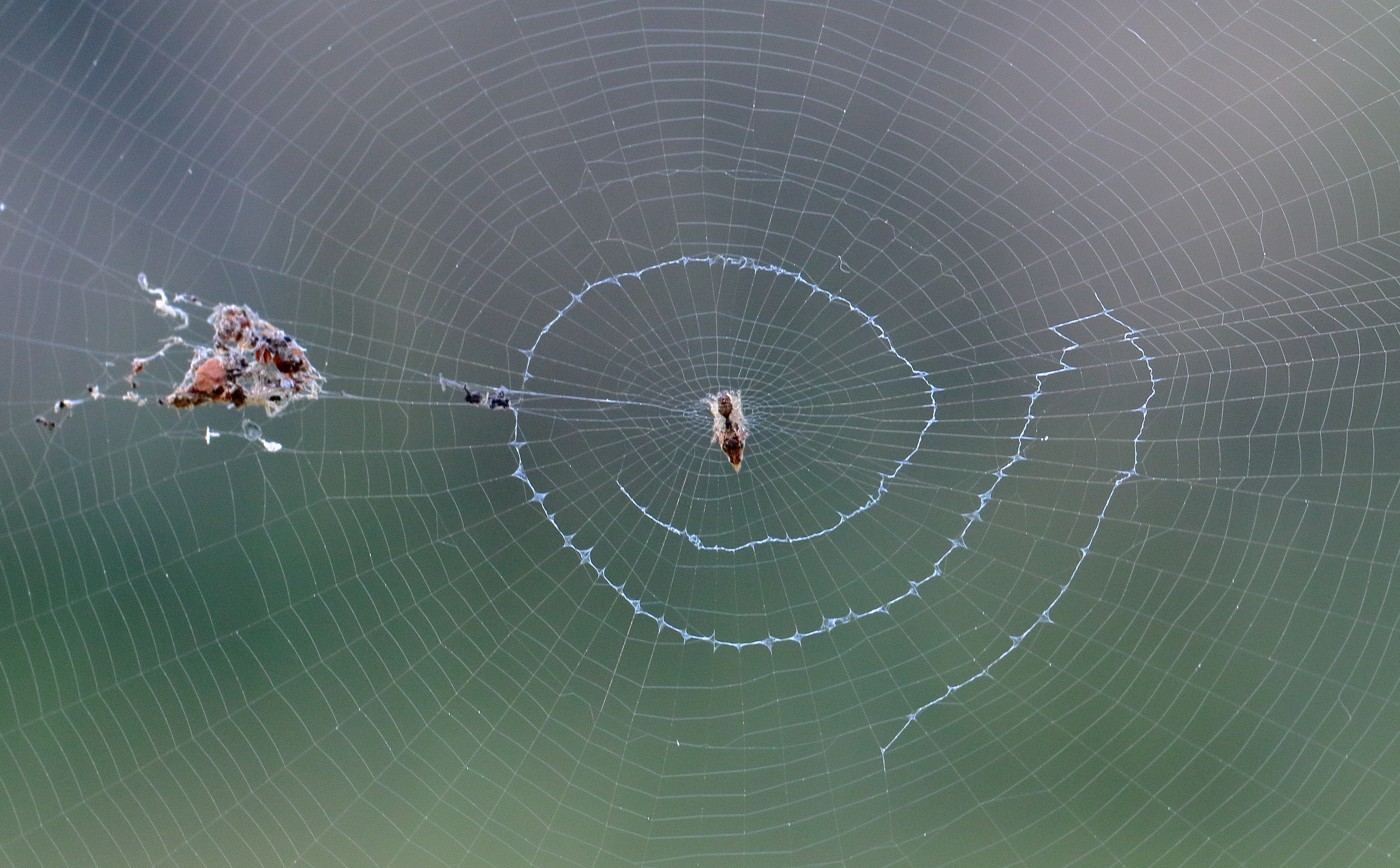 Cyclosa species spider and stabilimentum in north Queensland, Australia